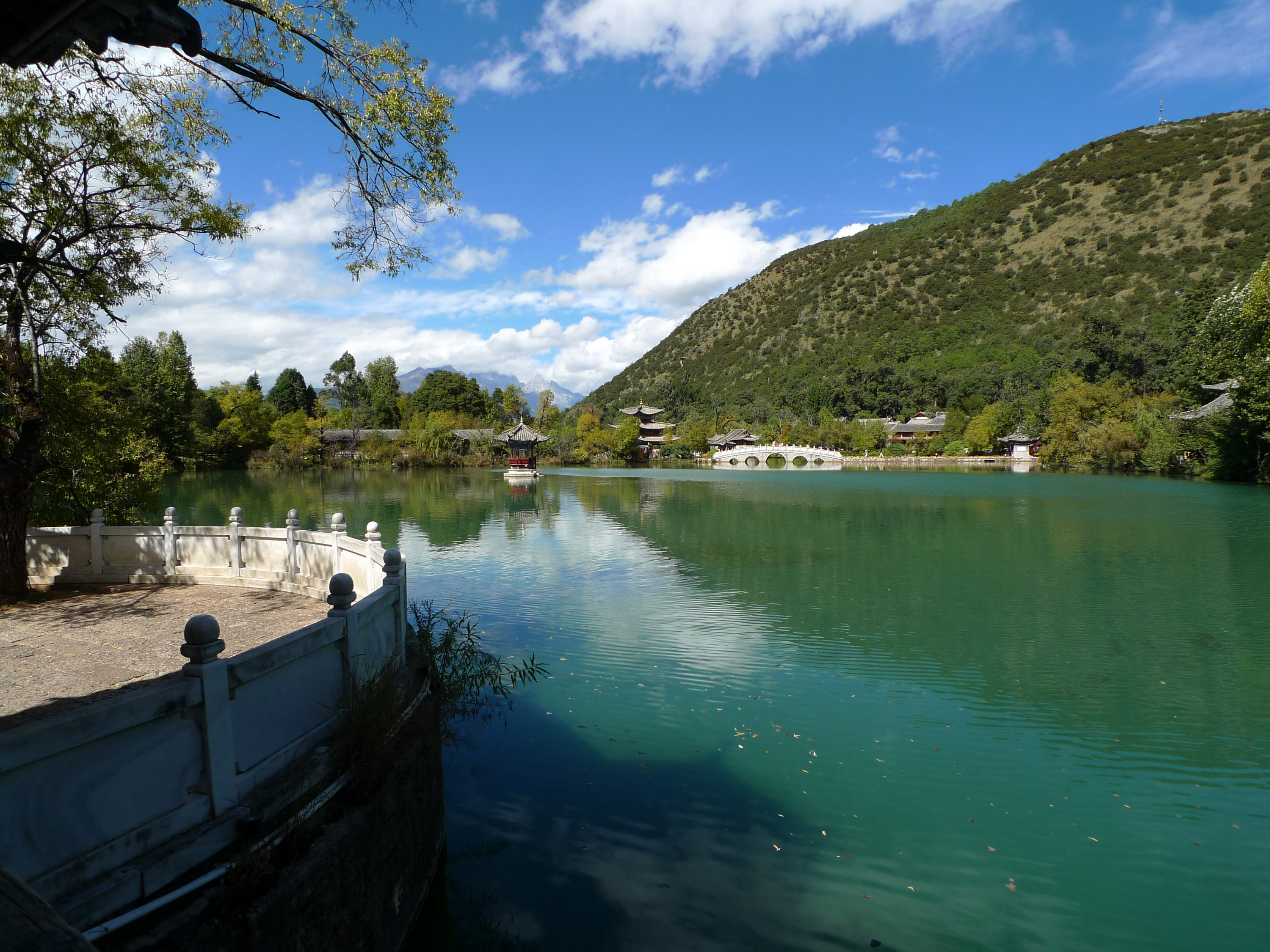 Lijiang Black Dragon Lake Park